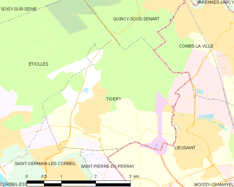 Map of French municipality Tigery